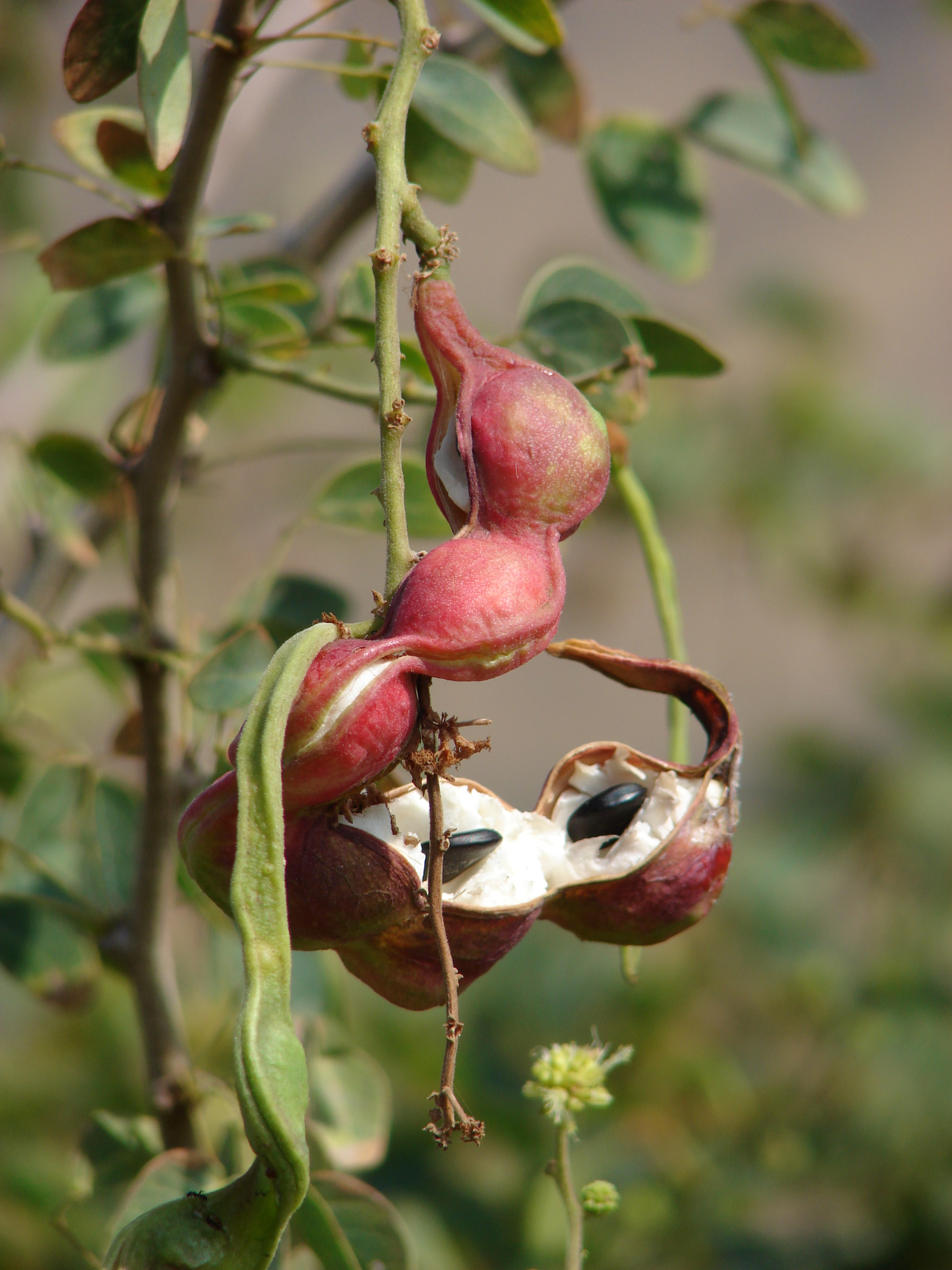 Pithecellobium dulce (seedpods). Location: Maui, Ukumehame